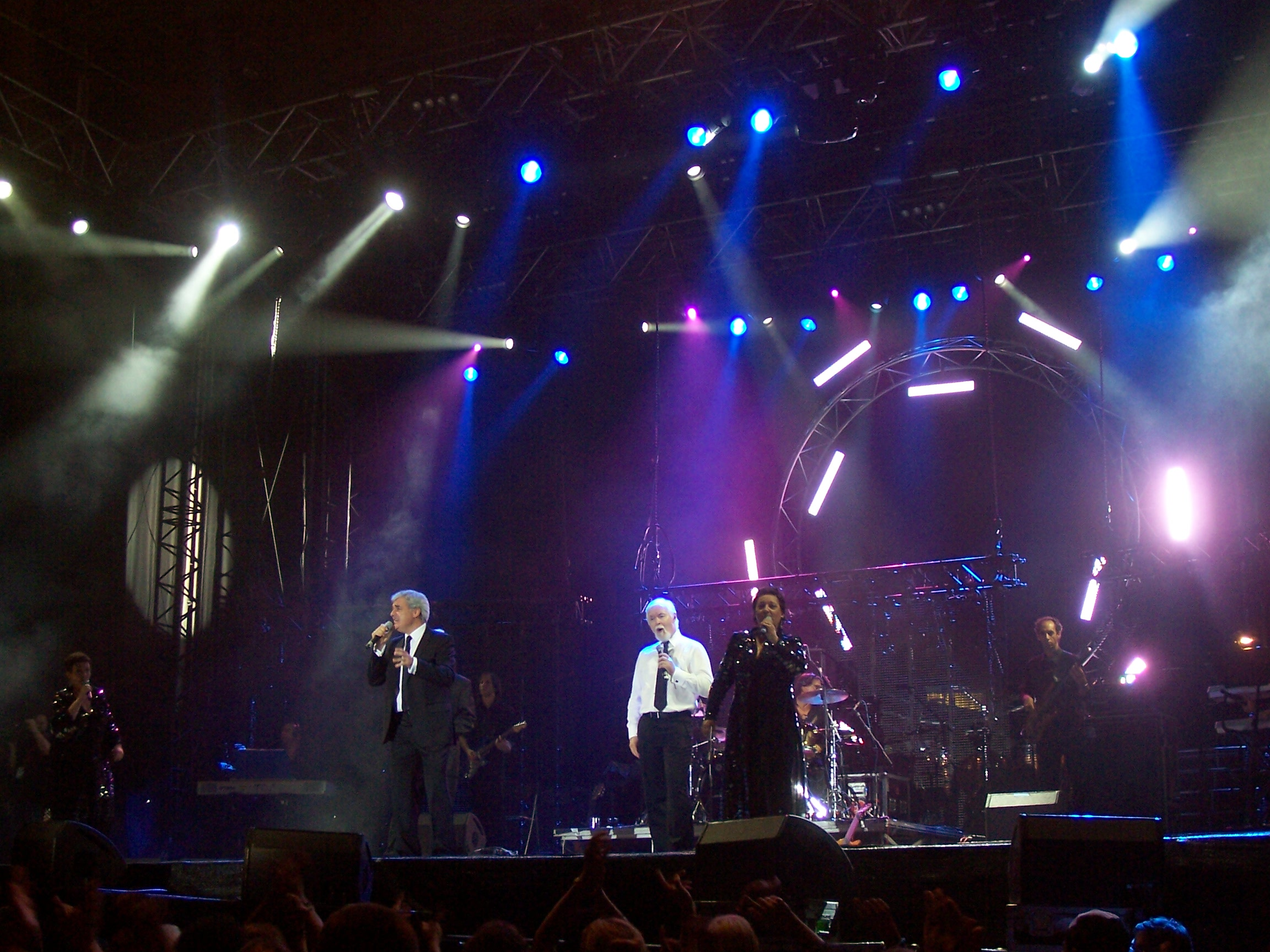 El Consorcio, a Spanish musical group during a concert in the Noroeste Pop Rock in August 14th 2009 in Praia de Riazor (La Coruña, Spain). From left to right, Amaya e Iñaki Uranga, Sergio Blanco and Estíbaliz Uranga.